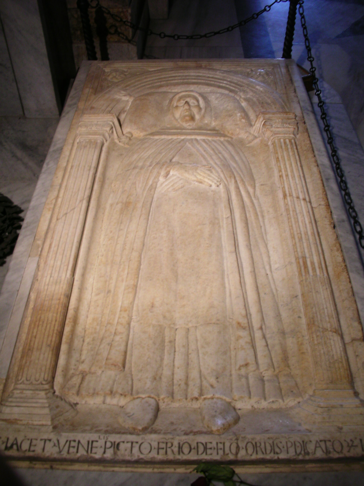 Photo of tomb of Fra Angelico, by Isaia da Pisa (1455), in Santa Maria sopra Minerva, Rome.